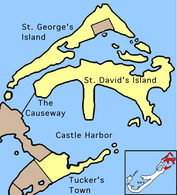 Map of Bermuda showing Saint George's parish.